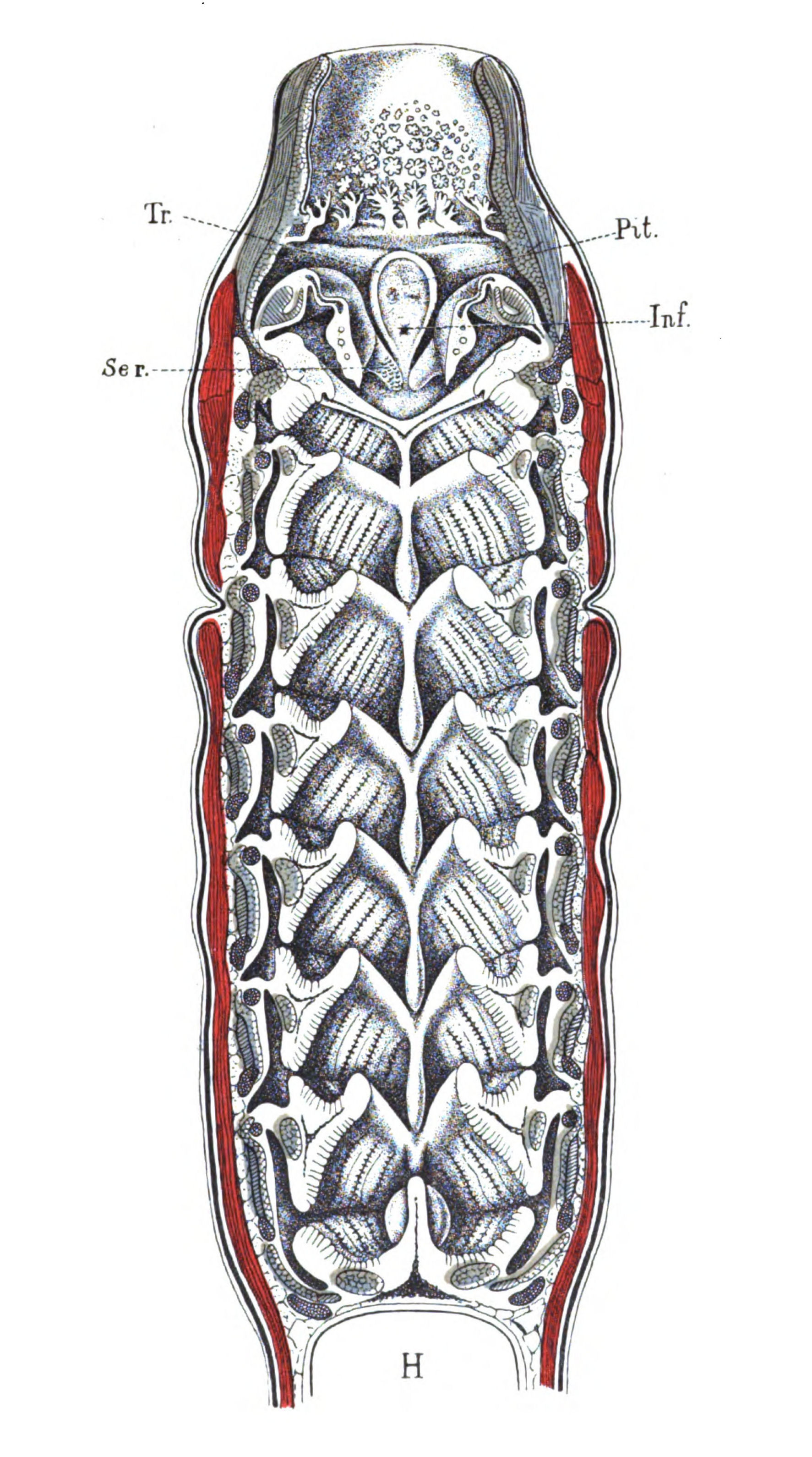 Fig. 64.—Dorsal half of Head-region of Ammocœtes. Tr., trabeculæ; Pit., pituitary space; Inf., infundibulum; Ser., median serrated flange of velar folds. (All references in this work to Ammocœtes or Petromyzon appear to refer to the species now called Lampetra planeri.)